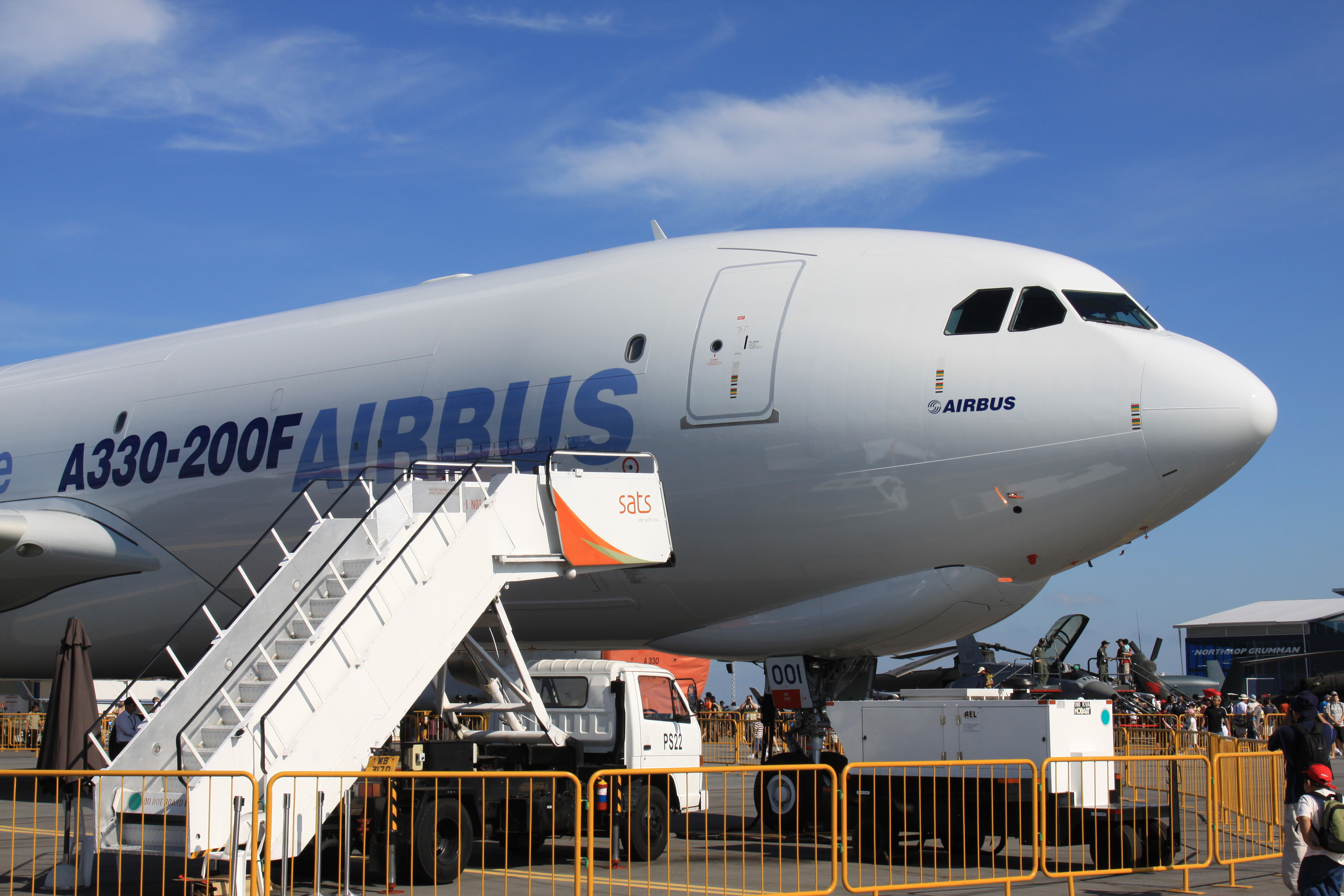 Singapore Airshow 2010